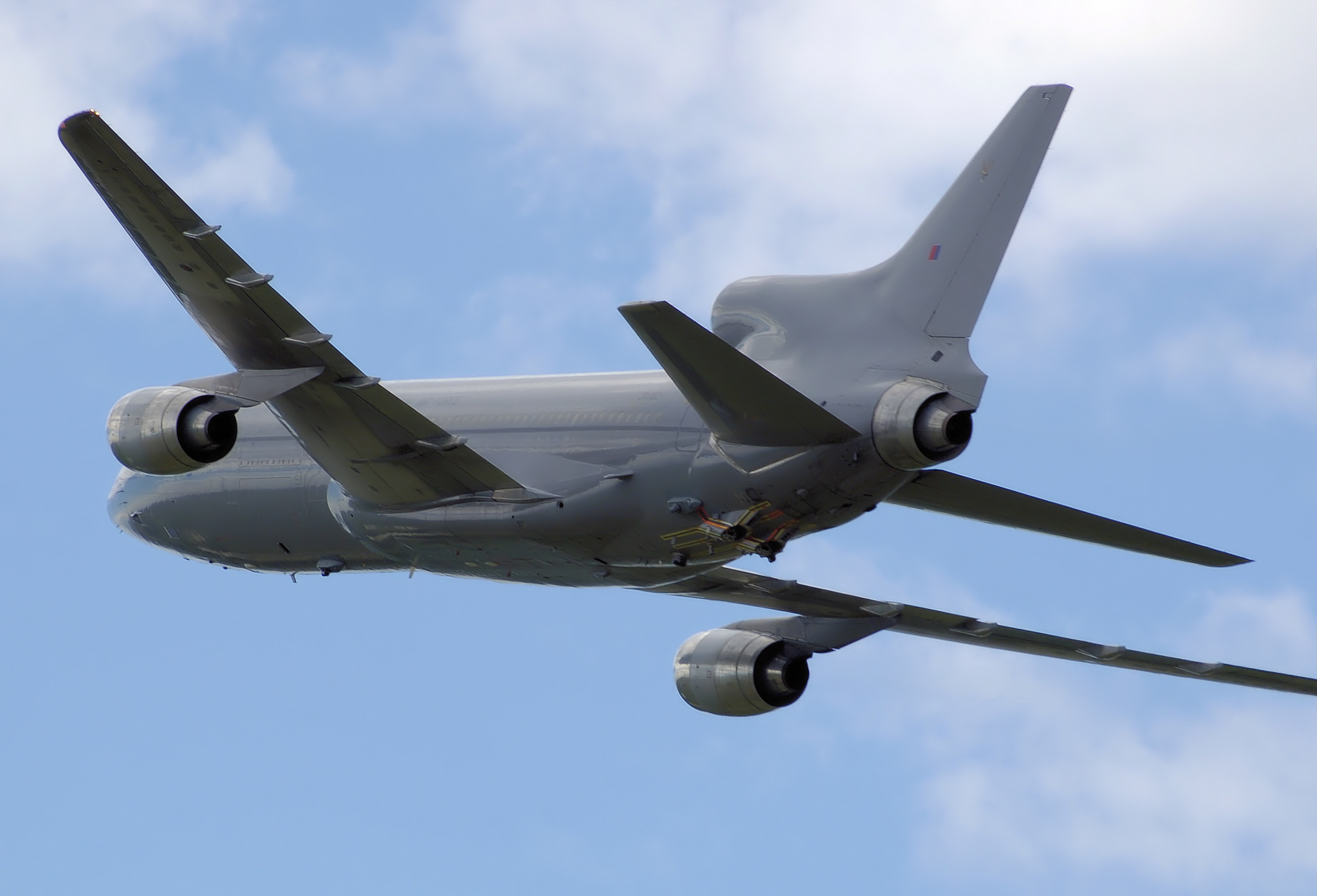 Lockheed L-1011 TriStar KC.1 tanker (RAF code ZD952) flies over Kemble Air Day, Kemble Airport, Gloucestershire, England.